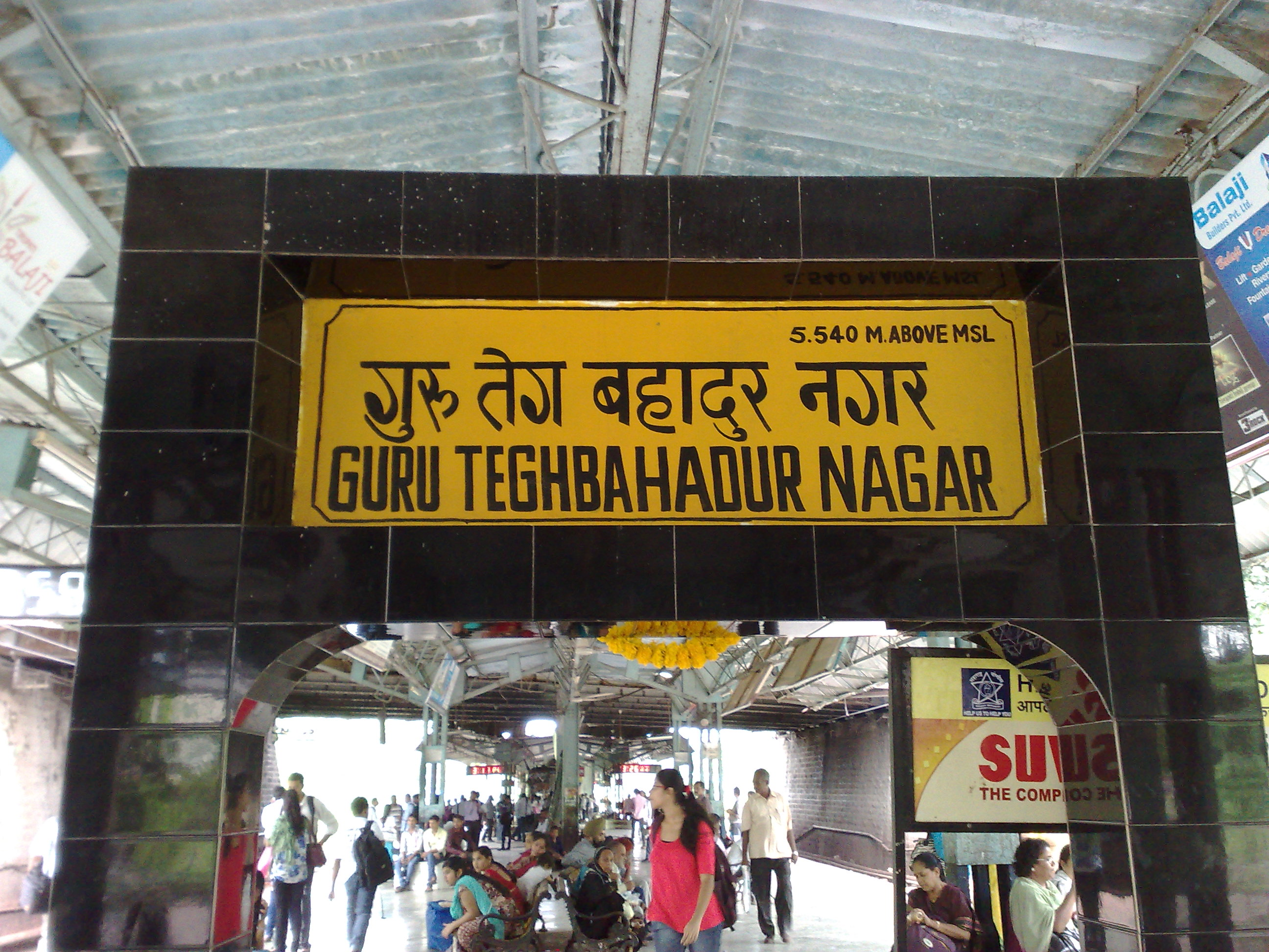 GTB - stationboard